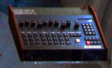 Oberheim DMX drum machine. The Oberheim DMX was a programmable, digital drum machine introduced in 1981, which, alongside the Linn LM-1, helped to shape the sound of popular music during the 1980s. Clipped from File:Electric musical instrument section of the Deutsches Museum.jpg.